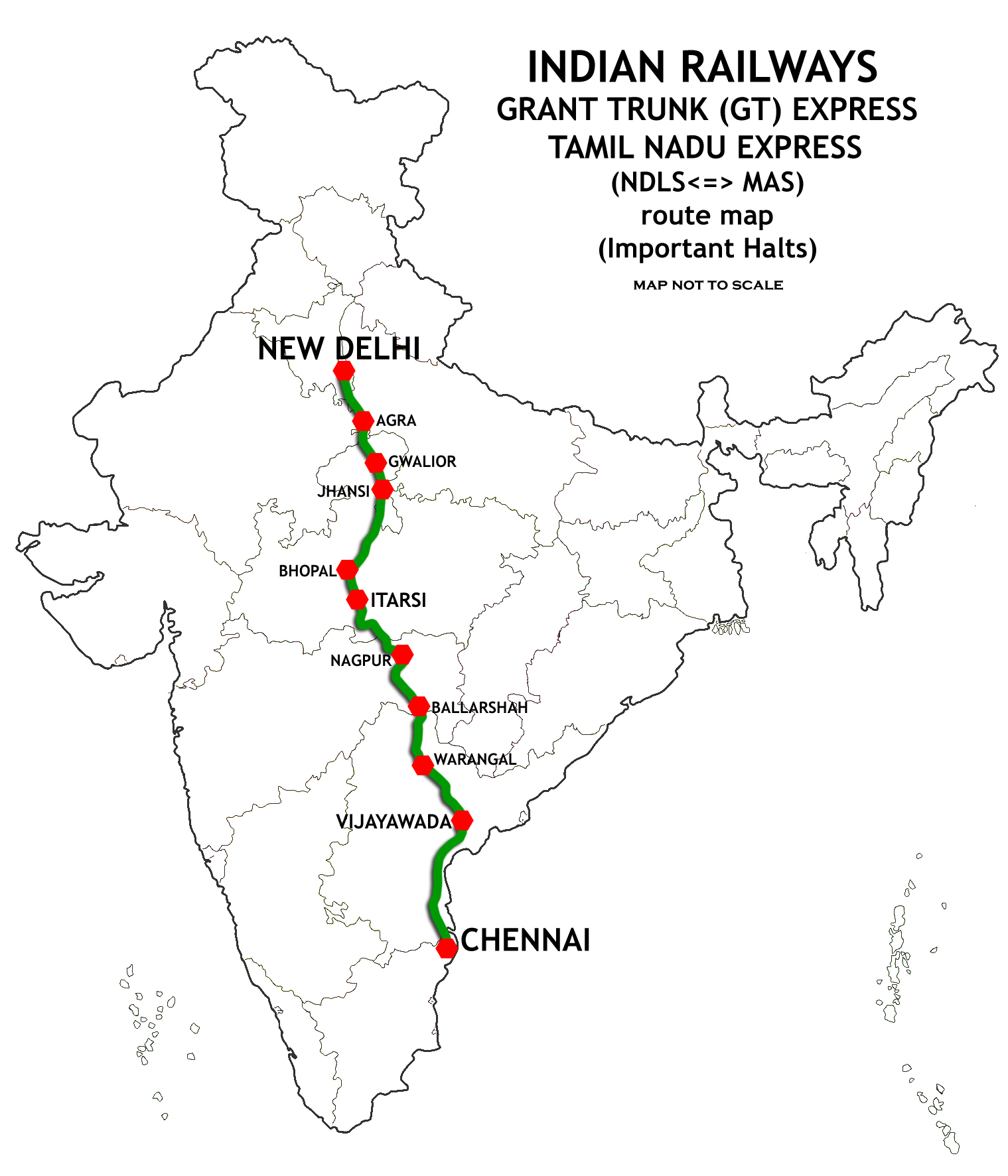 Grand Trunk Express and Tamil Nadu Express (NDLS-MAS) Route map